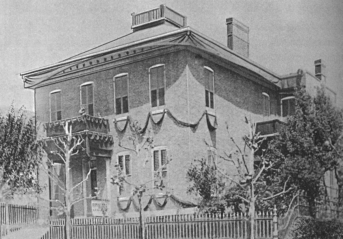 Home of C. F. W. Walther in St. Louis, Missouri This photo was taken on May 7, 1887 on the death of C. F. W. Walther. This home of his was on Texas Avenue in St. Louis, across the street from Holy Cross Lutheran Church.